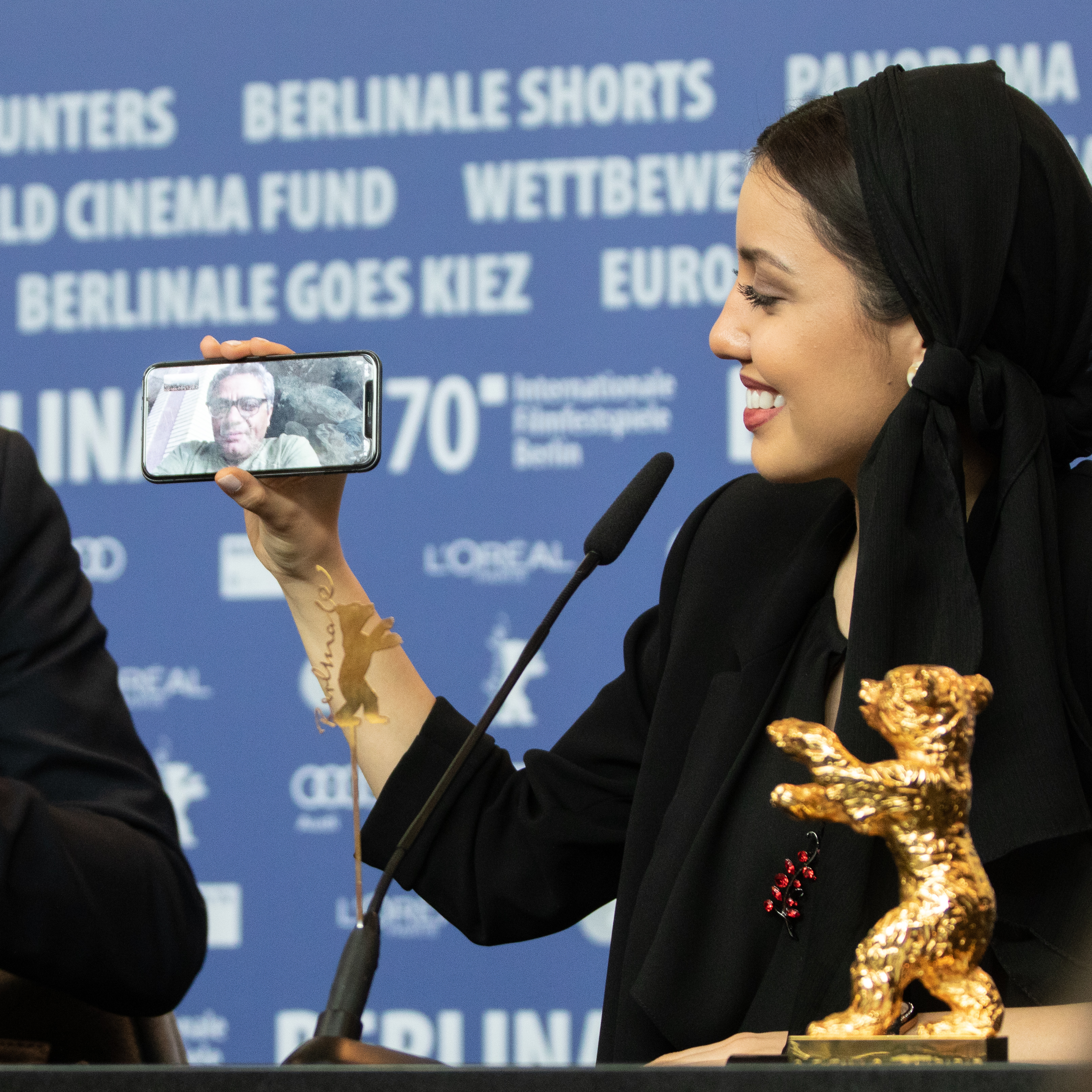 Mohamed Rasoulof, video chatted at the award winners' press conference of the Berlinale 2020, his daughter Baran and the golden bear of the competition